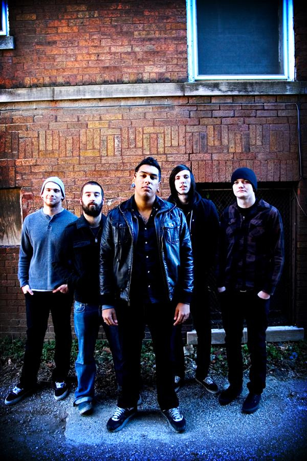 Band-photo from For Today.